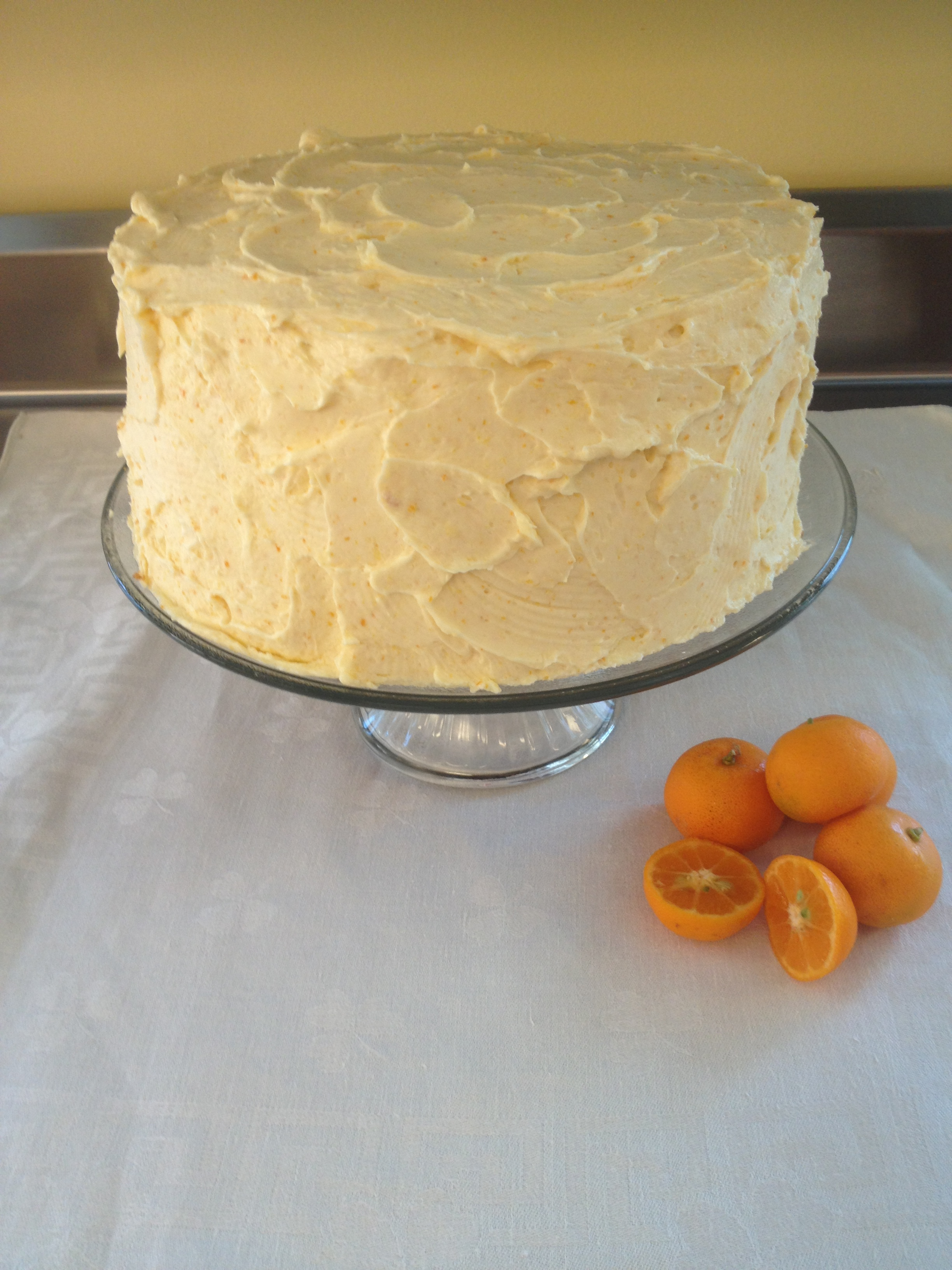 Frosted Calamondin Cake